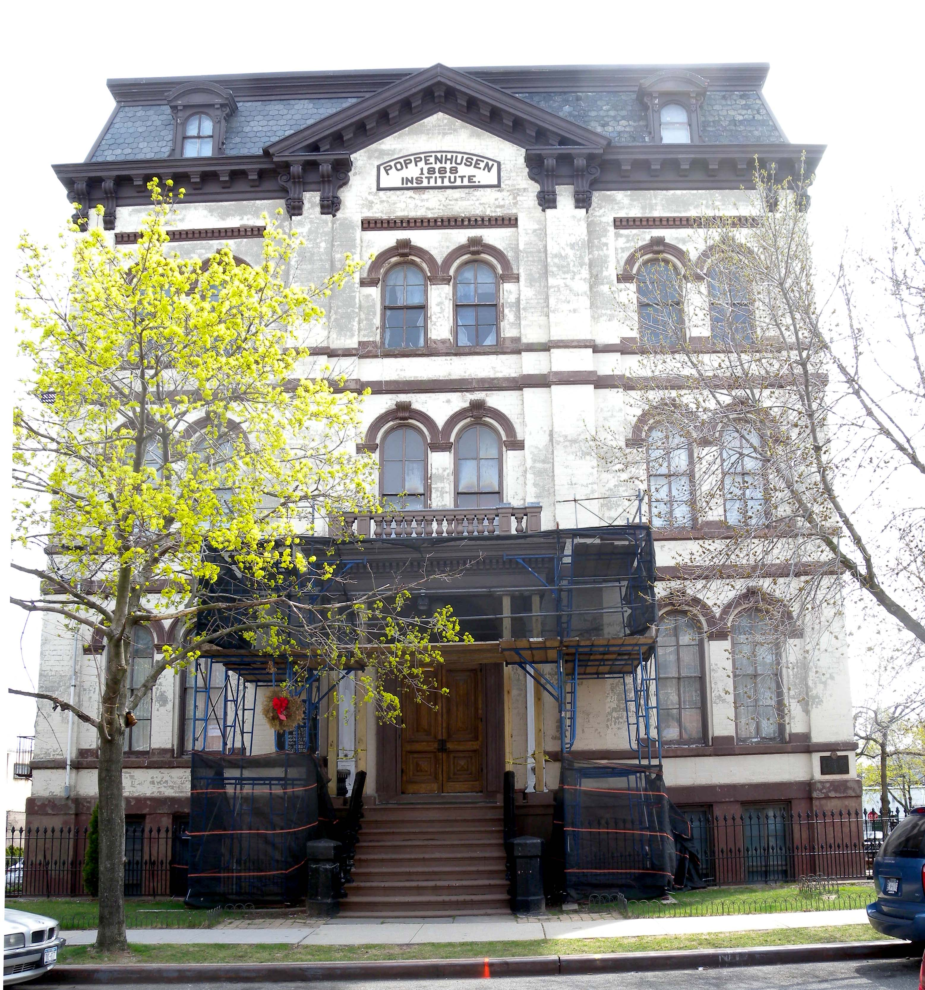 Looking south across 14th Road at Poppenhusen Institute in College Point, Queens on a cloudy midday. Site of the first free Kindergarten in the USA for children of workers. NYCLPC designation 1970.